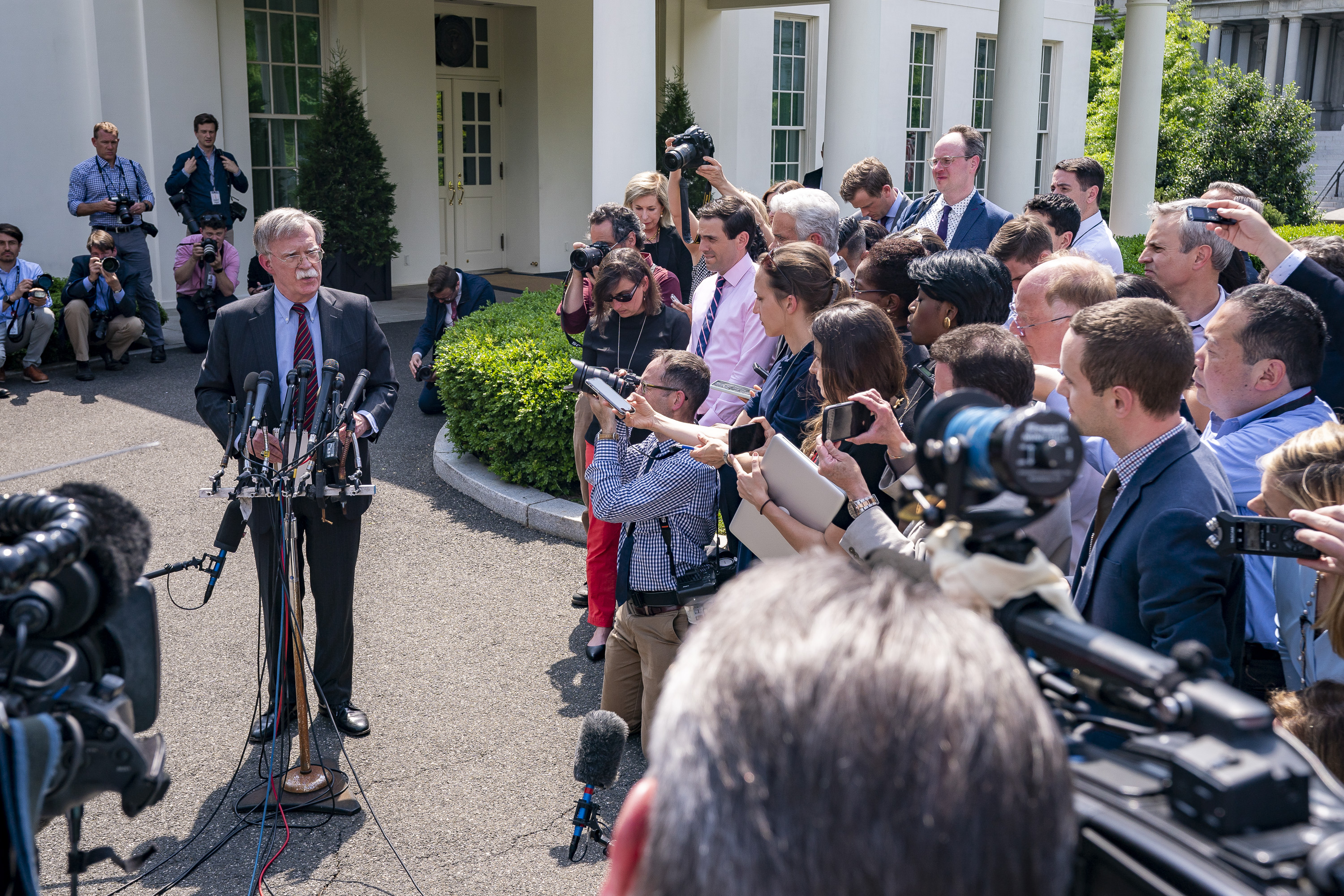 White House National Security Adviser Ambassador John Bolton speaks to reporters on events occurring in Venezuela Tuesday, April 30, 2019, outside the West Wing entrance of the White House. (Official White House Photo by Tia Dufour)